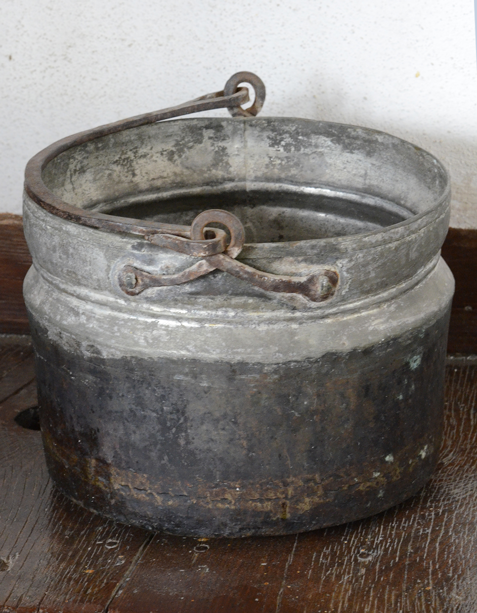 A copper bucket, used to keep and carry liquid foods such as ayran,, yoghurt and water in the past. Arıkan House, Kozan - Adana, Turkey.